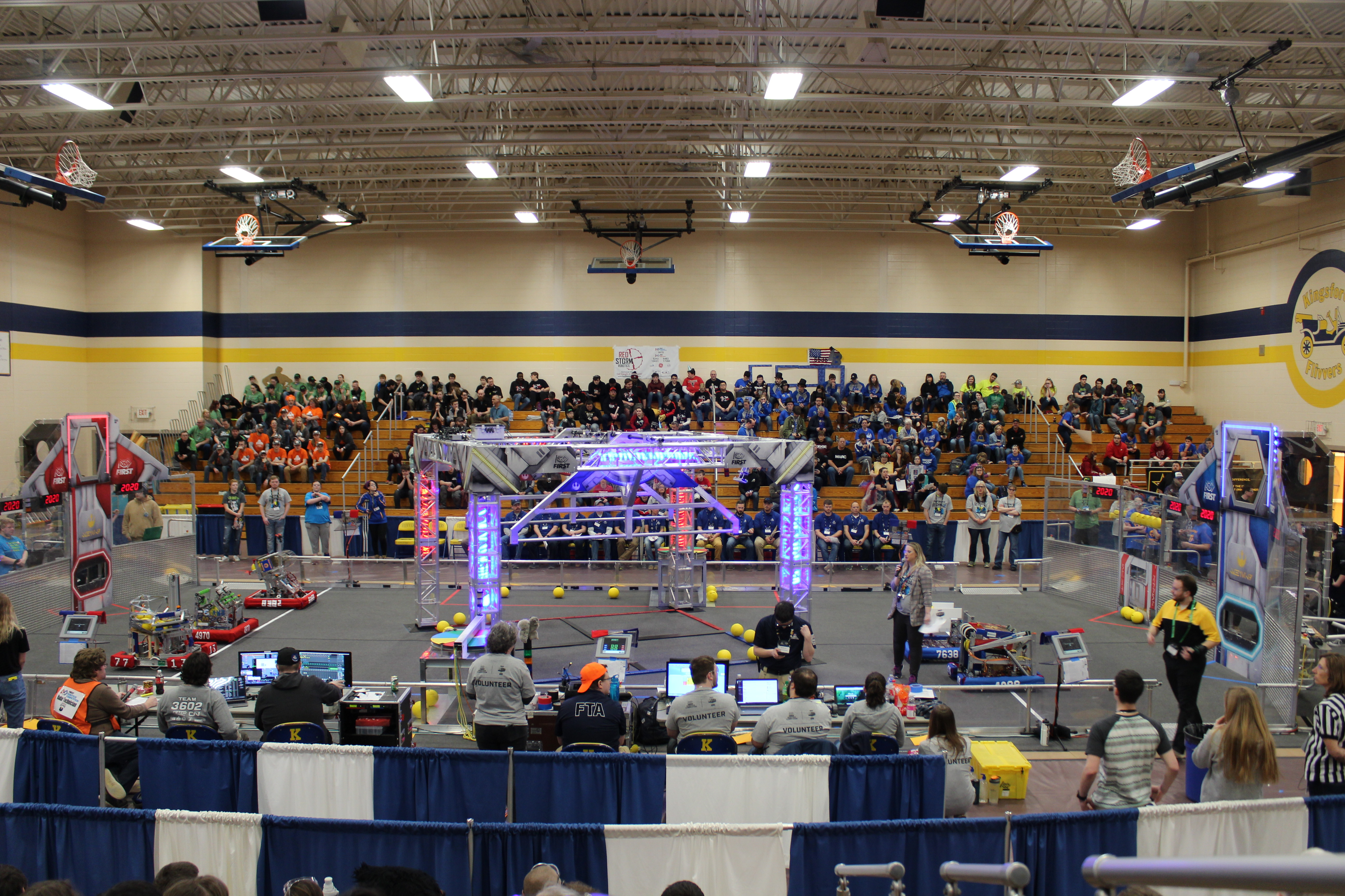 The playing field for the 2020 FIRST Robotics Competition game, Infinite Recharge, at the Kingsford District Event in Kingsford, Michigan.